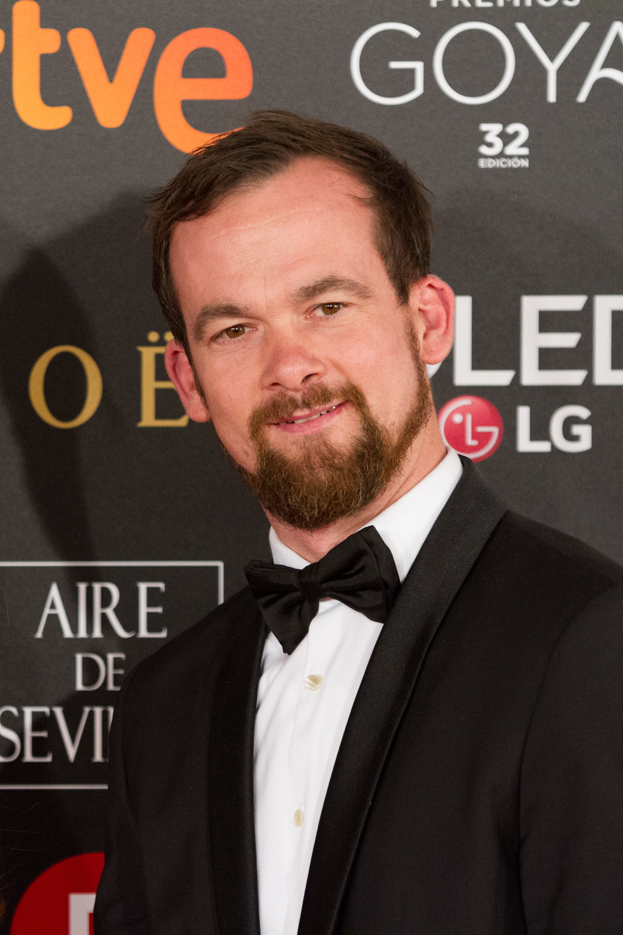 32nd Goya Awards, 2018.